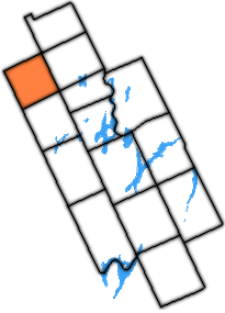 Map of Victoria County (Now city of Kawartha Lakes), with former township of dalton highlighted in orange.